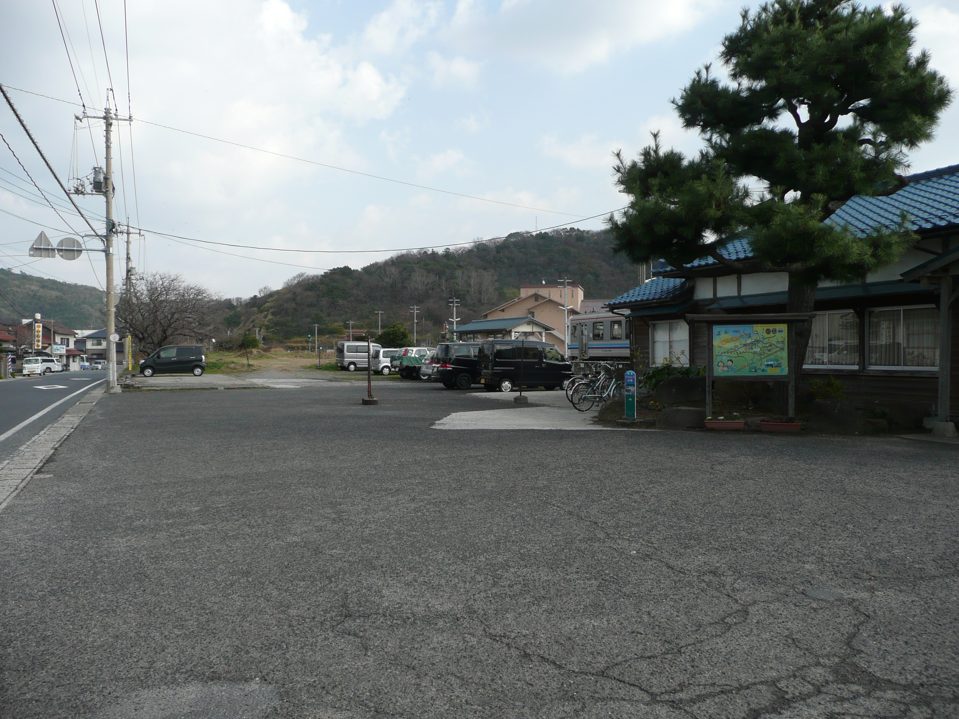 波根駅前